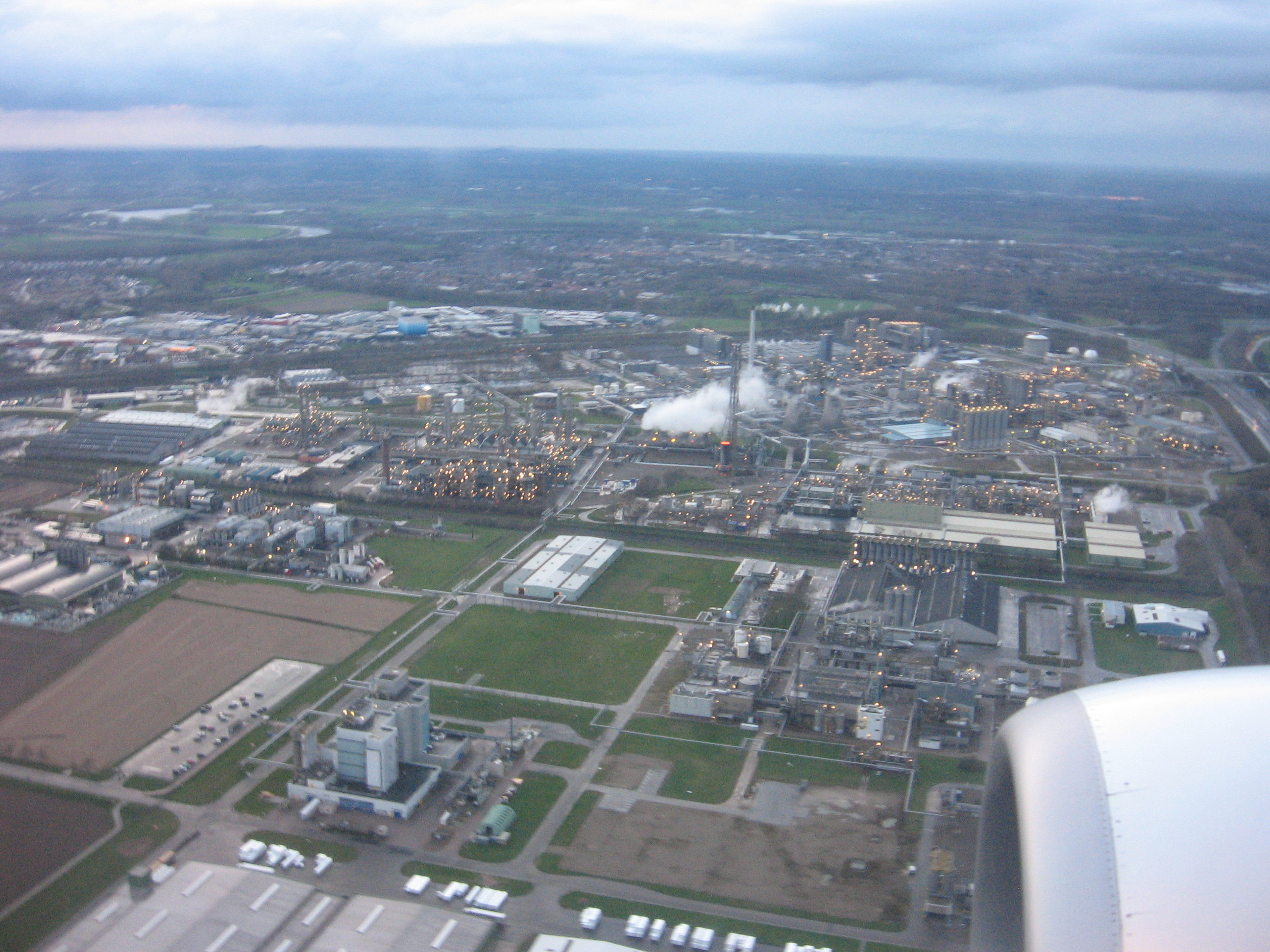 Chemelot